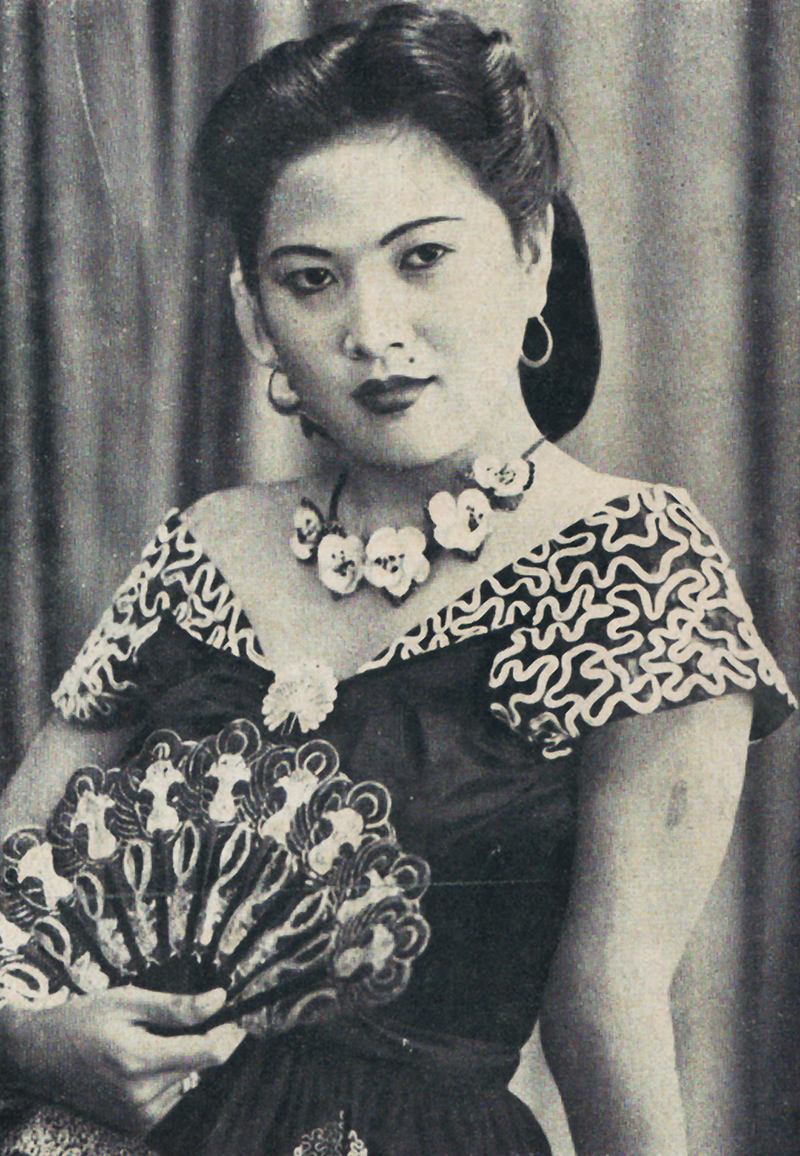 Titien Sumarni, Film Varia 1.5, cover